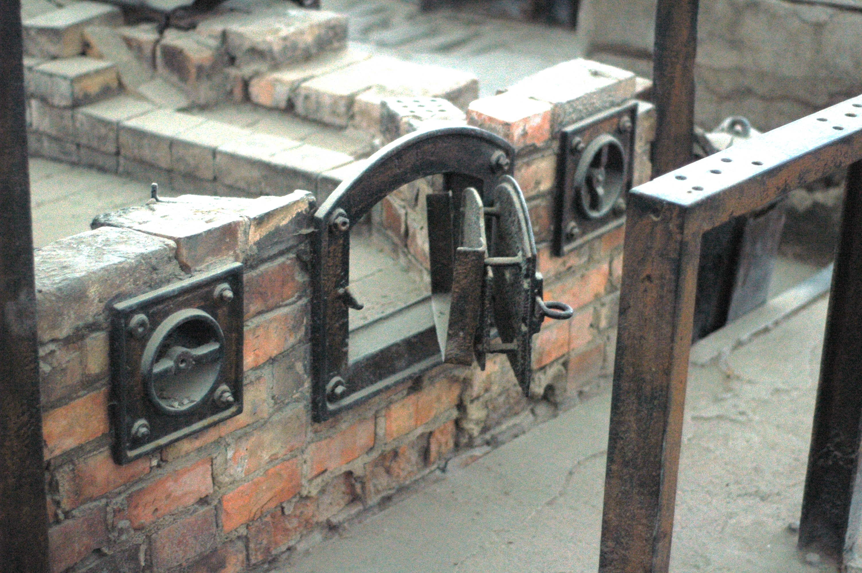 Remains of crematoria oven at Sachsenhausen concentration camp in Oranienburg, Germany.